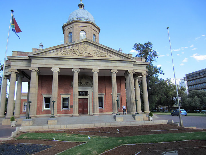 Parliament in the Free State province, Bloemfontein, South Africa. Photo taken Sen. Roberts' trip for an NCSL conference.